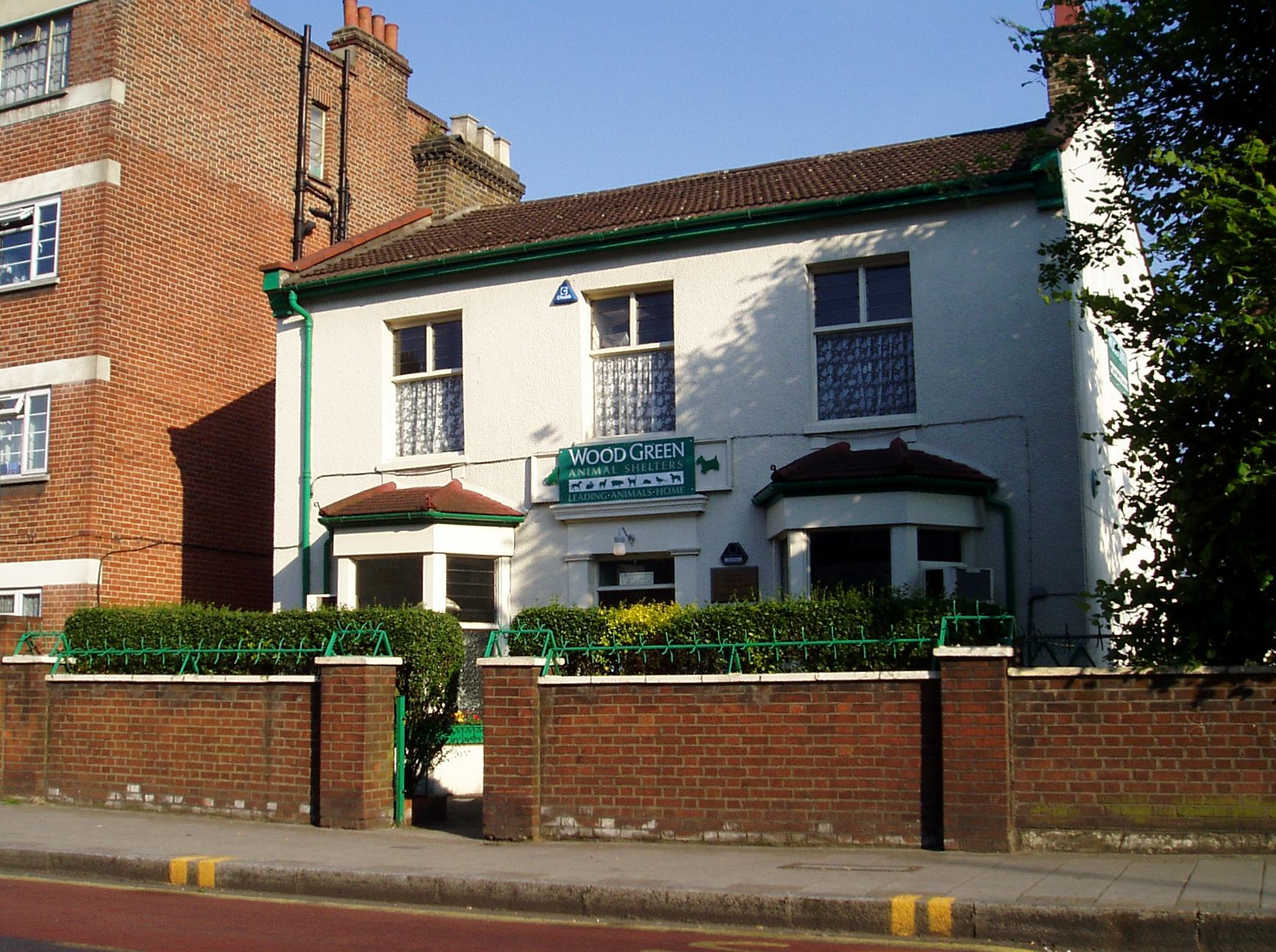 Animal Shelter, Lordship Lane, London N22 from the gallery at Lordship Lane, London N17